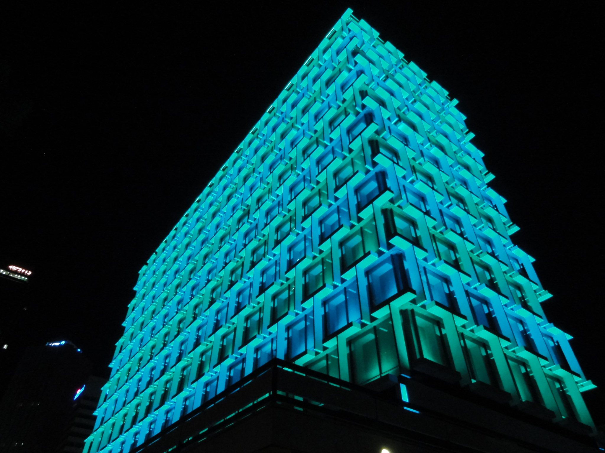 Council House in Perth, Western Australia, lit up by LED lights installed on the window frames.